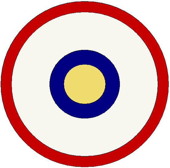 Shield pattern of Prima Flavia Constantia in the early 5th century, source: Notitia Dignitatum Or. VII.